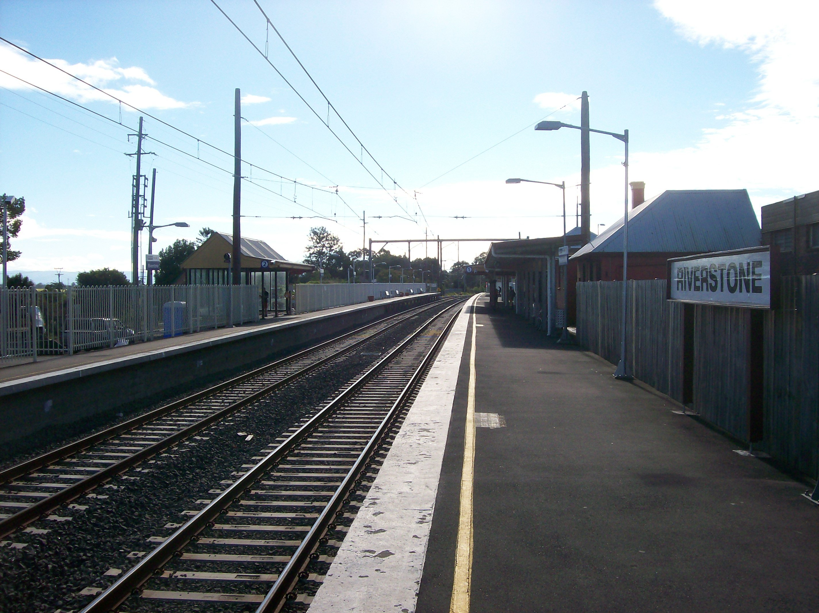 Riverstone railway station platform 1